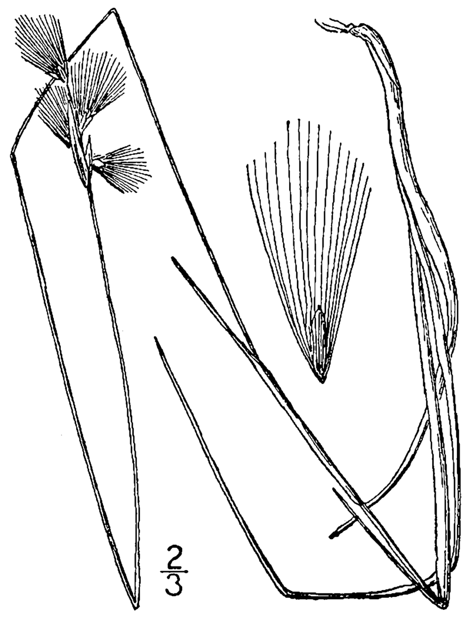 Eriophorum gracile W.D.J. Koch - slender cottongrass